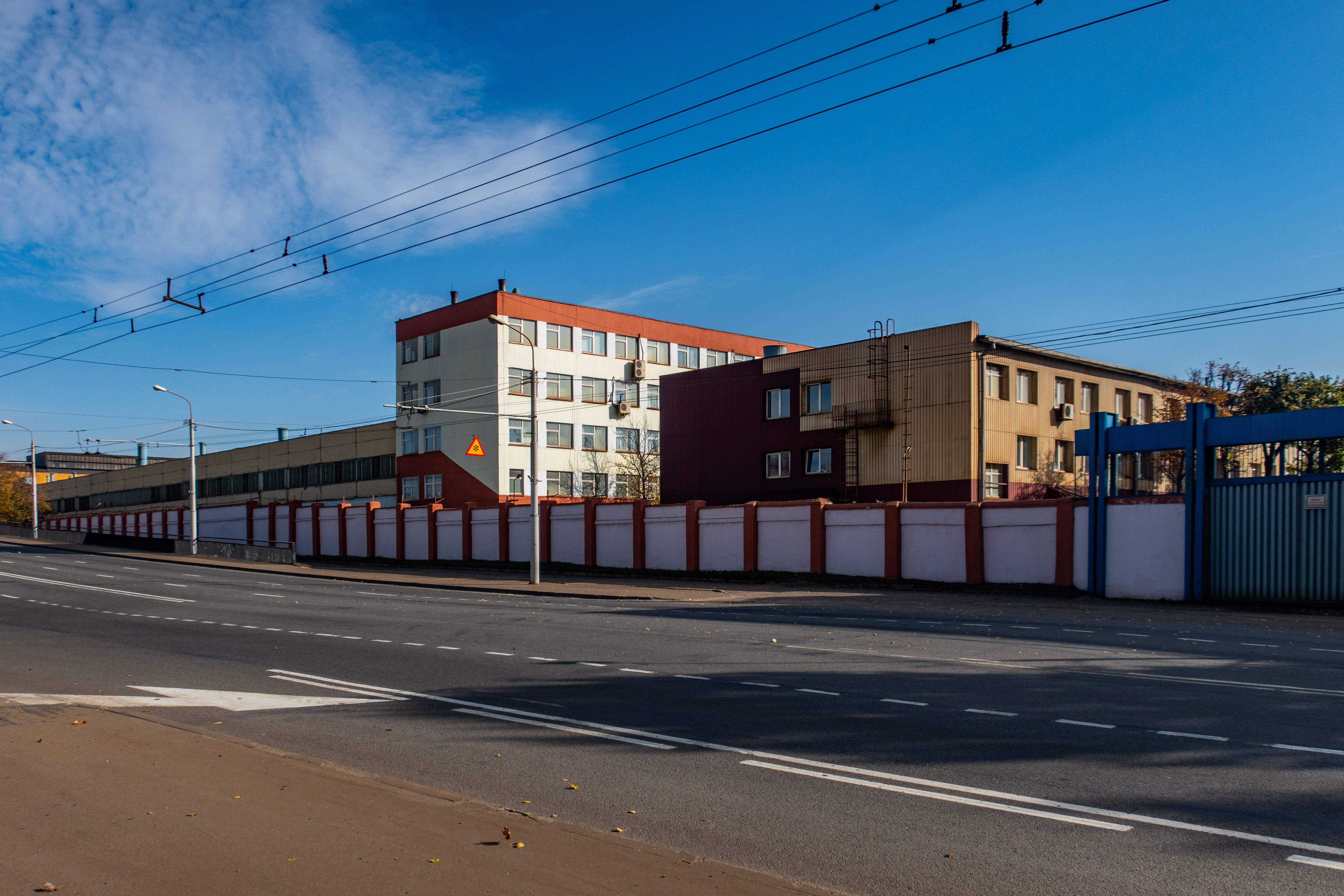 Workshops of Minsk Motor Works (MMZ). Minsk, Belarus